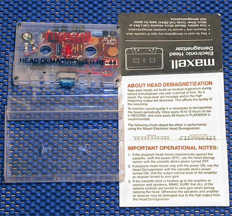 Maxell demagnetizer HE-44 for an audio cassette. This demagnetizer is shaped like a cassette shell so that it may be inserted into a tape deck.